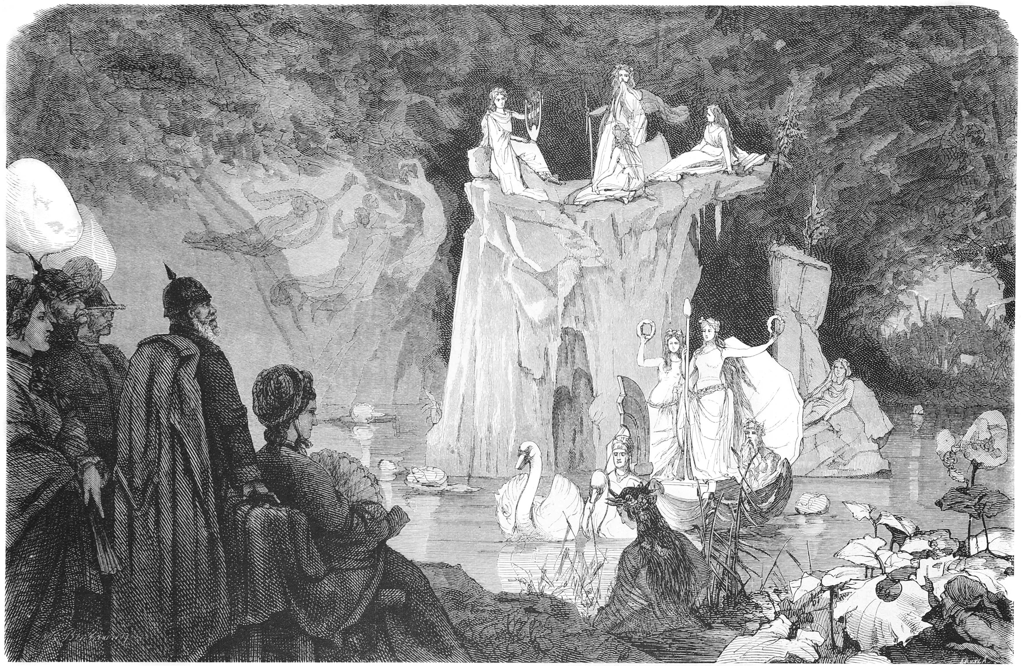 caption: "Der Nixenteich aus dem Malkastenfeste zu Düsseldorf.Nach der Natur aufgenommen von Wilhelm Beckmann in Düsseldorf."